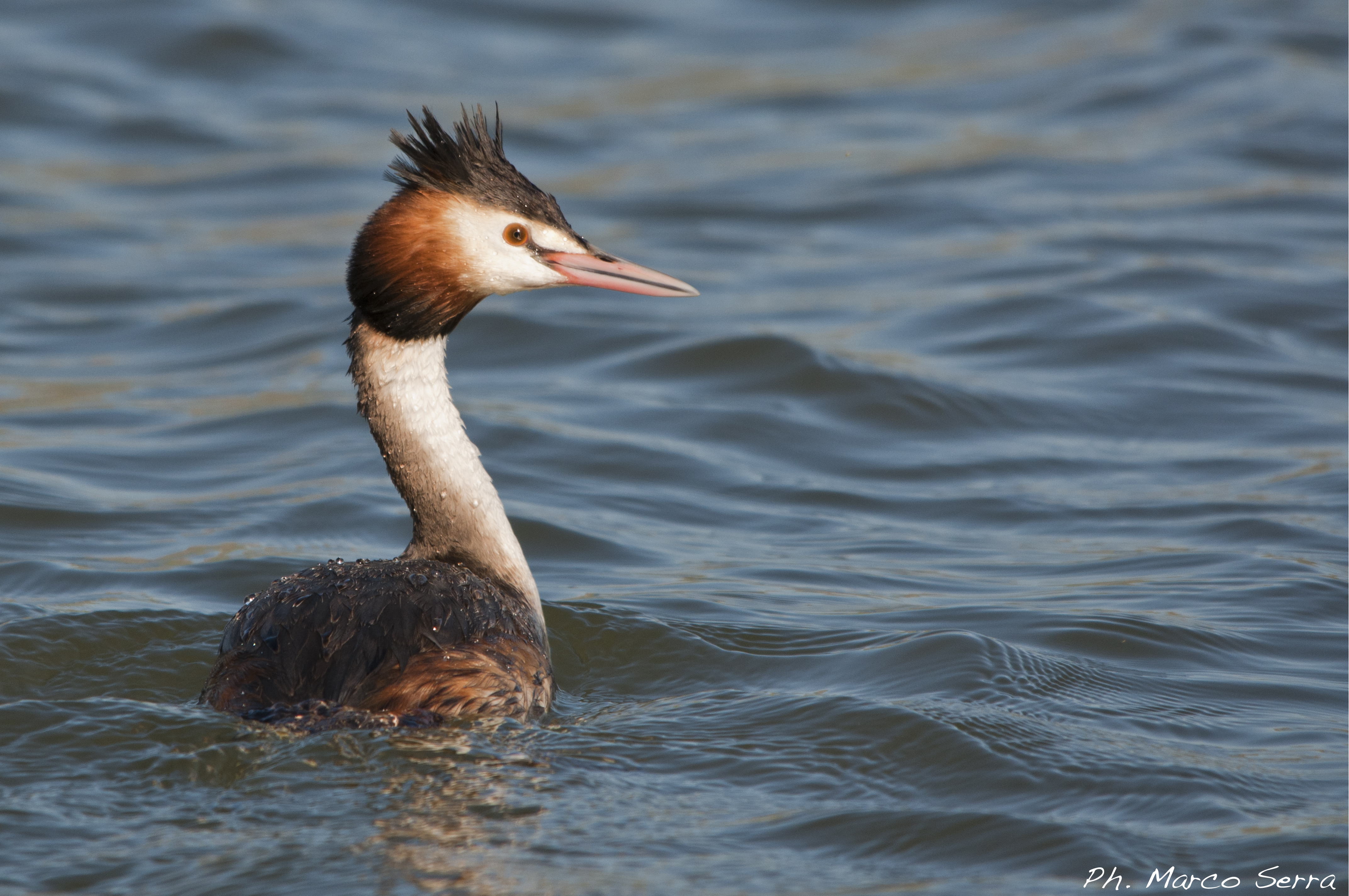 Podiceps cristatus